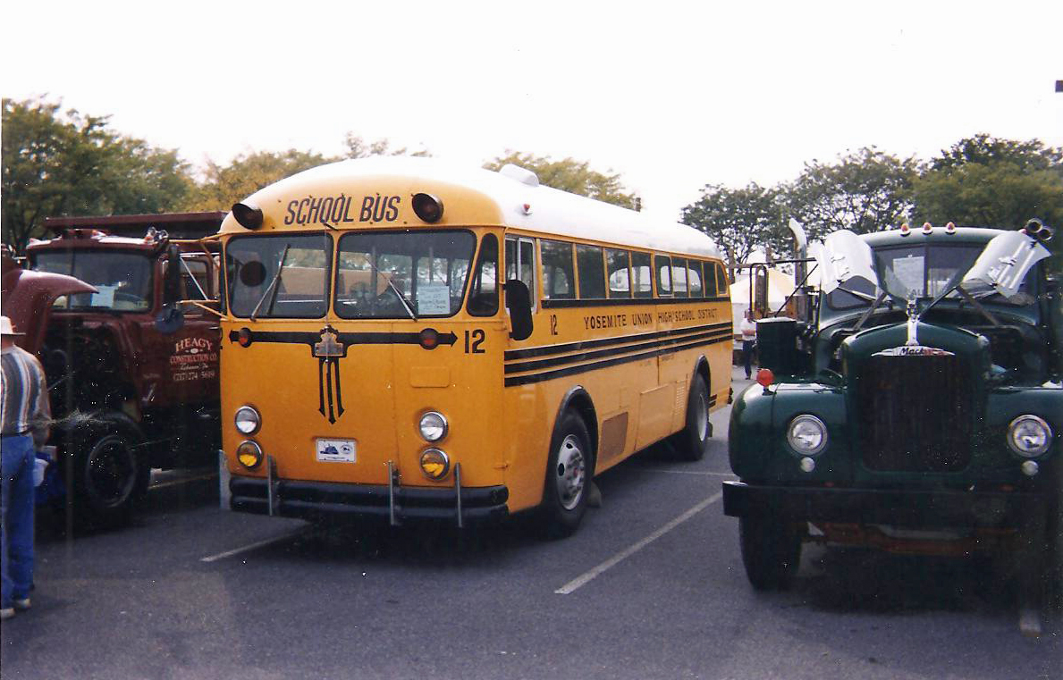 A 1997 photograph of a Crown Supercoach school bus in Hershey, Pennsylvania. The bus in the photograph is a mid to-late 1950s model. Decription from Flickr: Seen at Hershey back in.....1997 I believe.